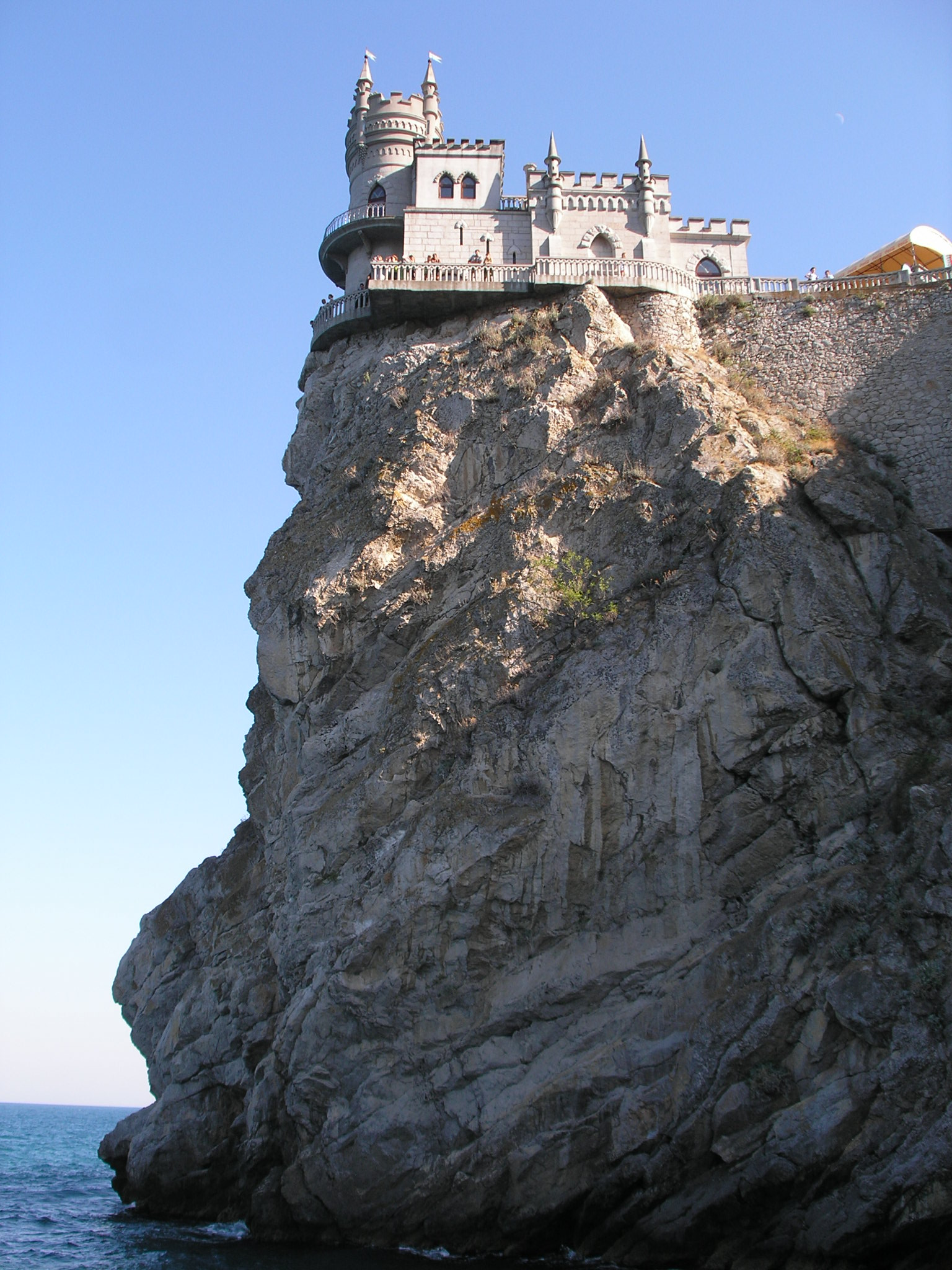 The Swallow's Nest, one of the Neo-Gothic châteaux fantastiques near Yalta, Ukraine